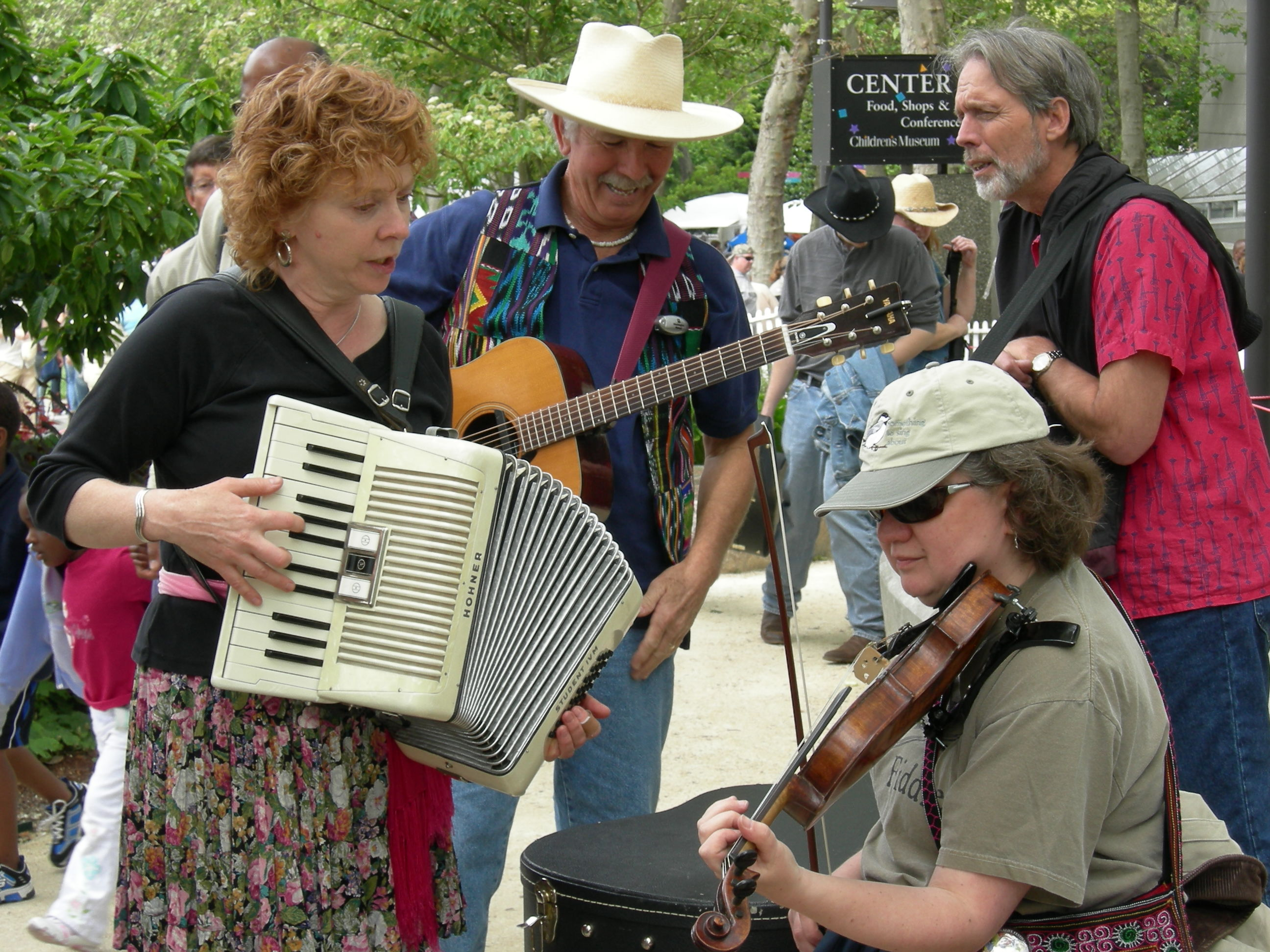 Jam session, Northwest Folklife Festival, Seattle Center, 2007.